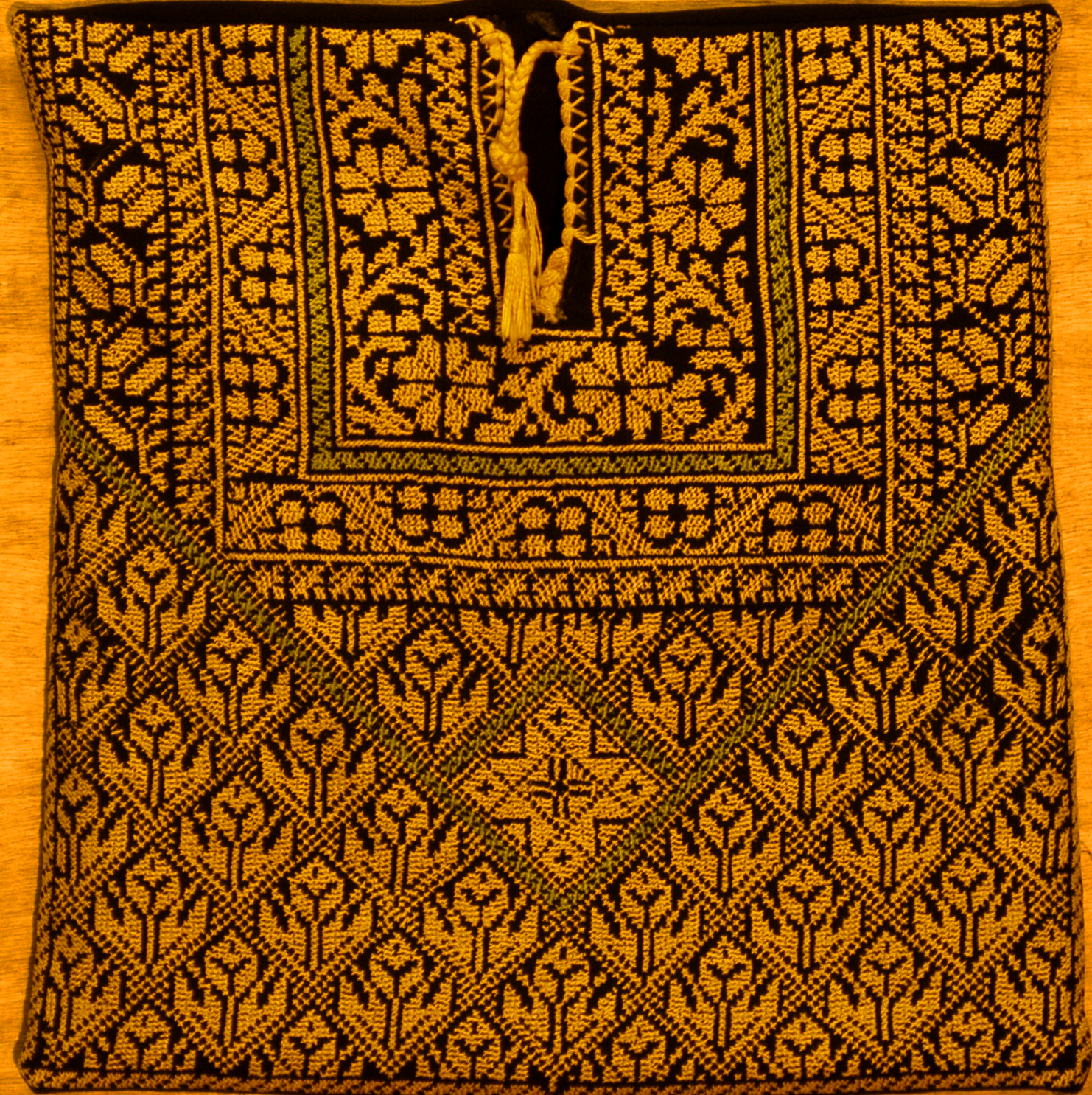 Front of dress purchased in 2000.